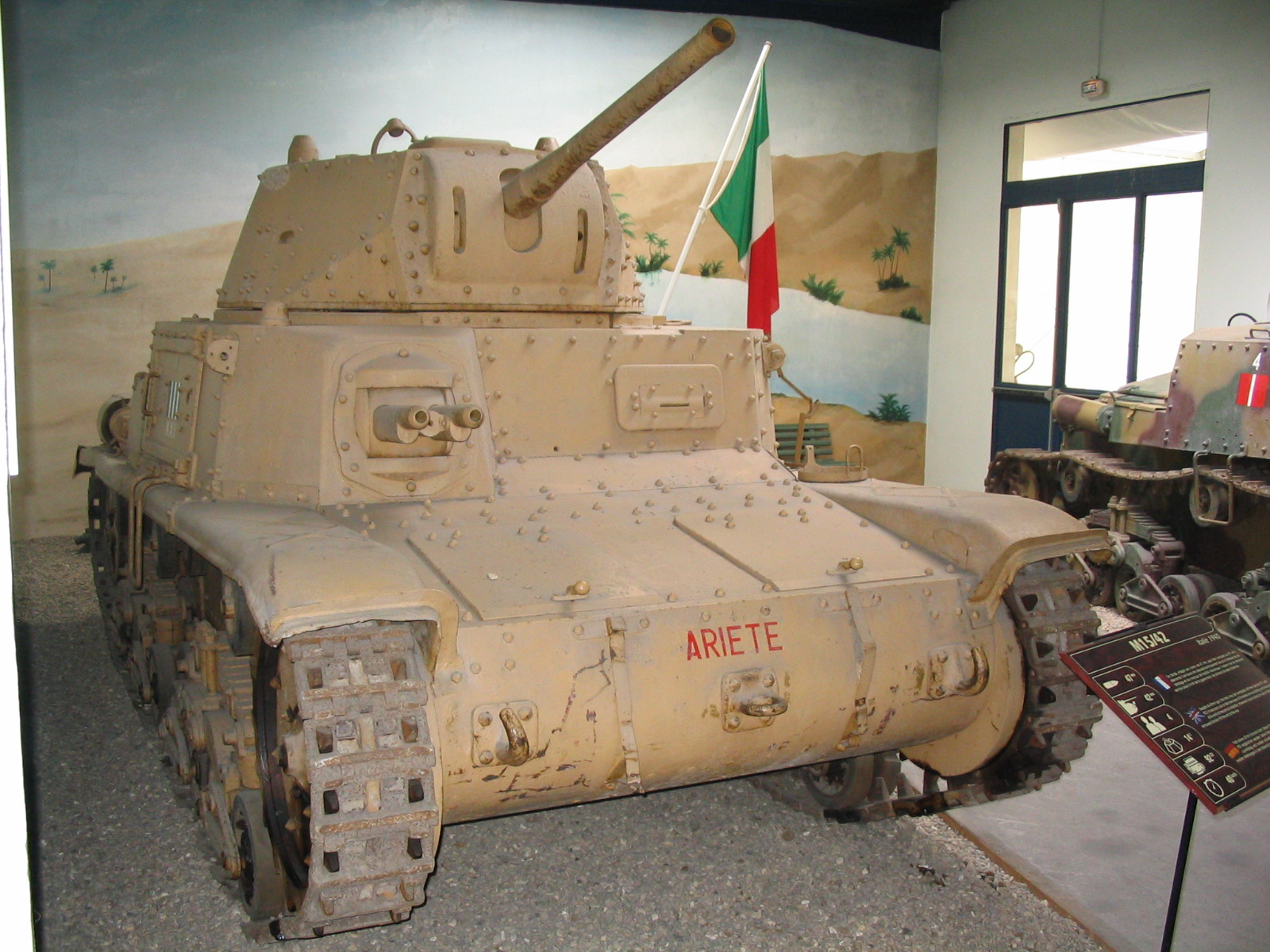 The M15/42 on display at Saumur